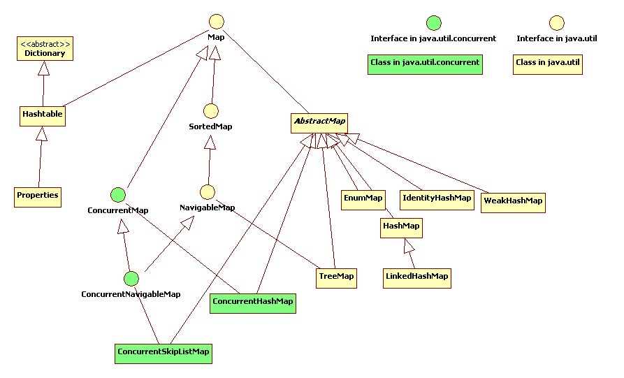 All subclasses and subinterfaces of java.util.Map in the java framework. Besides inner classes and package private classes